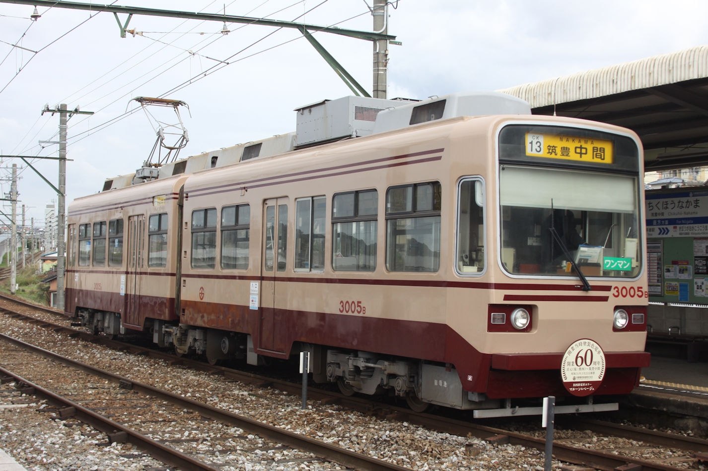 Chikuho Electric Railroad 3000 series EMU set 3005 at Chikuho-Nakama Station, specially repainted into old-style livery